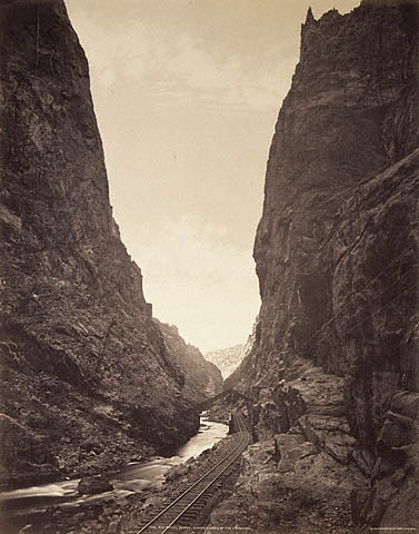 From here: Part of the "Royal Gorge, Grand Canyon of the Arkansas" "William Henry Jackson, photographer American, Colorado, 1881 - 1896 Albumen print" Mr. Jackson lived 99 years, from 1843 to 1942, so the dates on this page are probably for the photograph and not his lifespan. It falls into the public domain. I've resized the image.